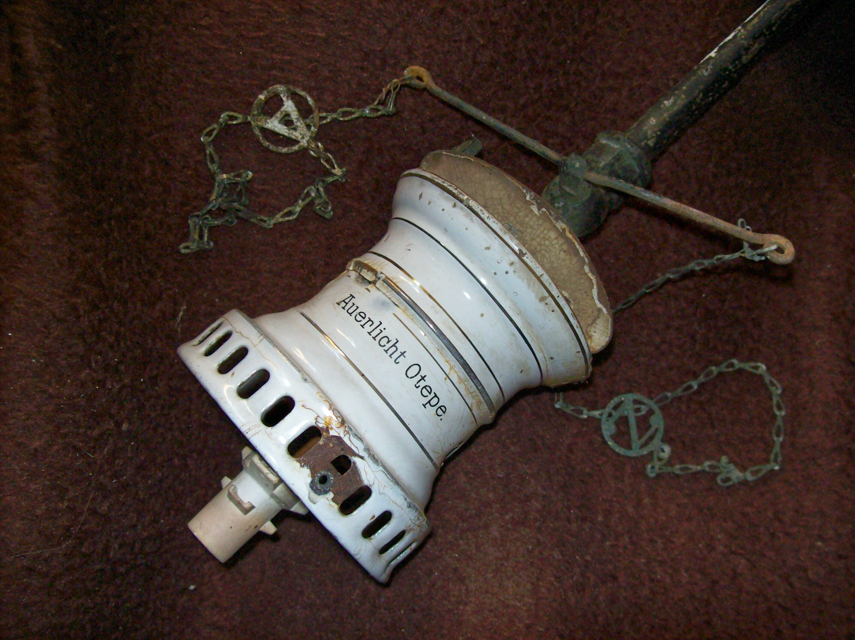 Auerlicht Otepe. Gas light for indoors, tube to be mounted under the ceiling. Gas supply valve with brass pulling chains with signs: "A(uf)" & "Z(u)", German for: Open & Close(d)